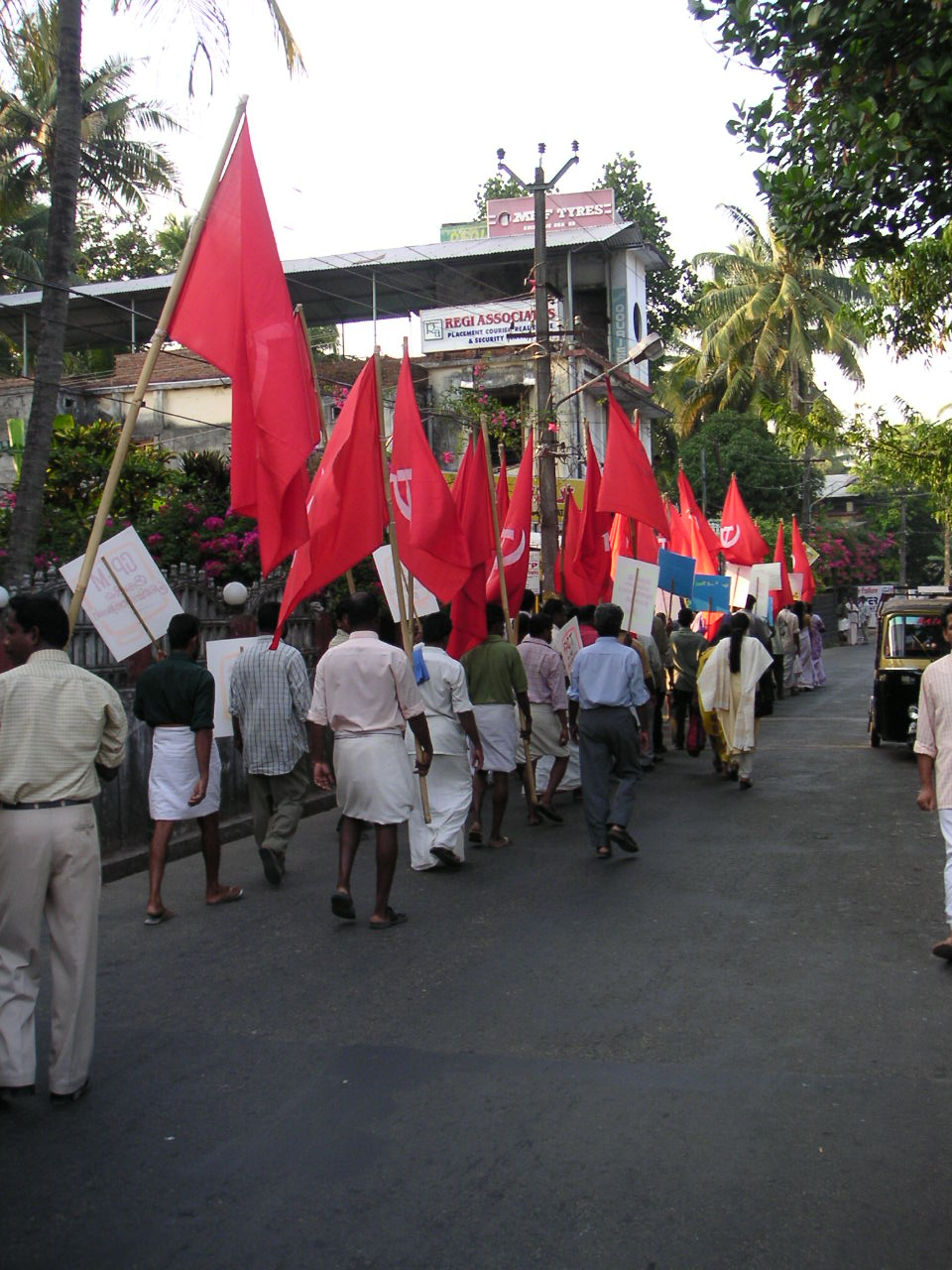 Communist Party of India (Marxist) rally in Ernakulam. Photo: Soman